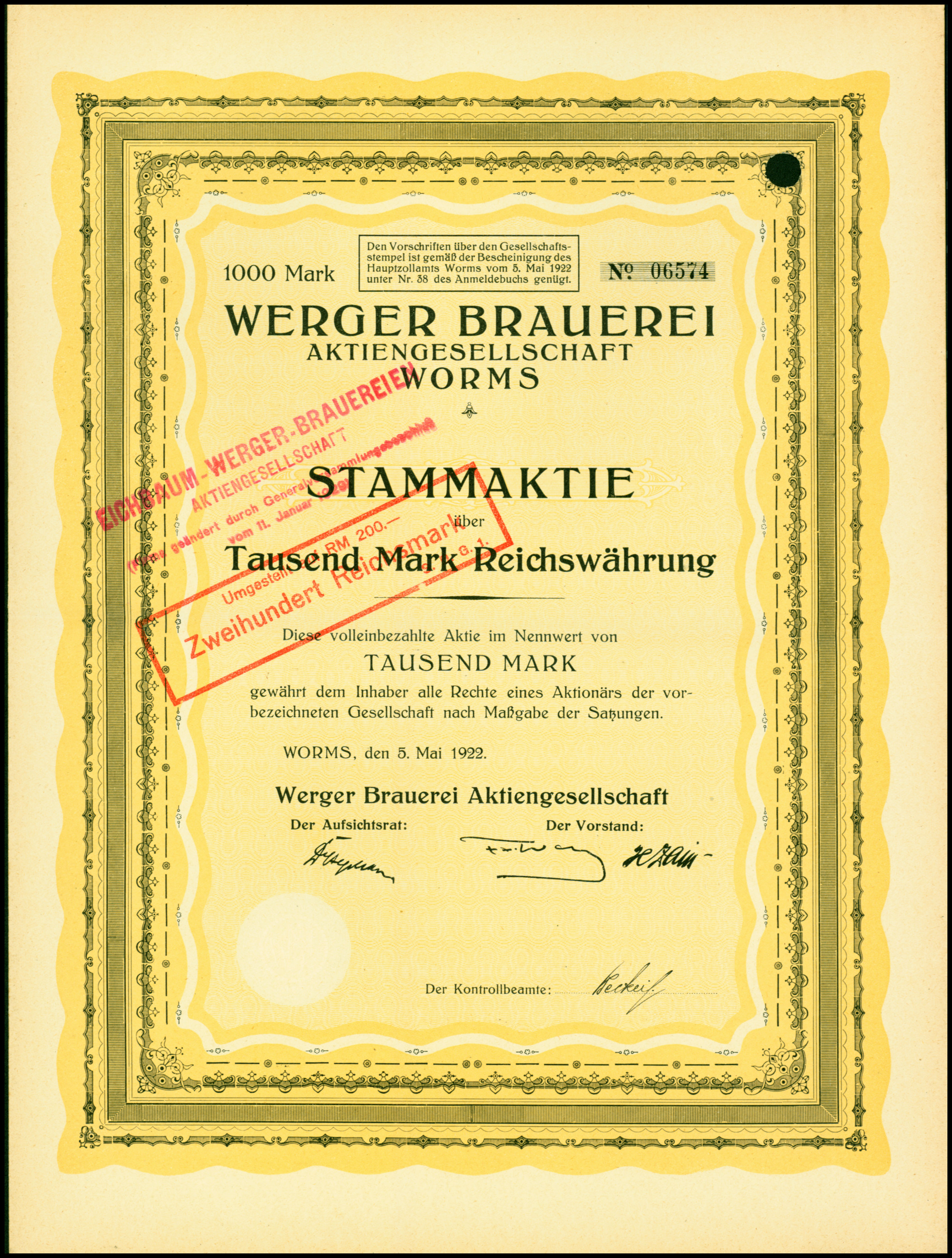 Share of theWerger Brauerei, issued 5. May 1922